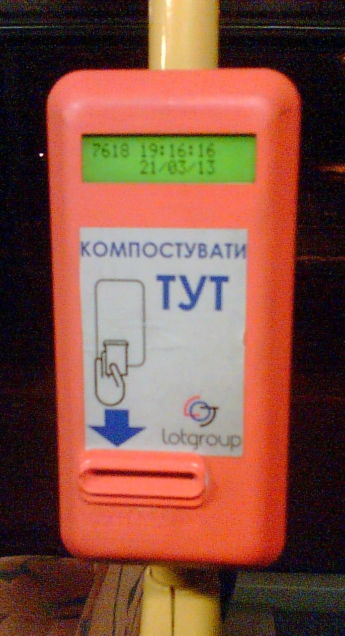 Electronic ticket validator in Kiev public bus. The validator thermoprints a timestamp and the bus' number (4 digits in the display's upper row) on a ticket.